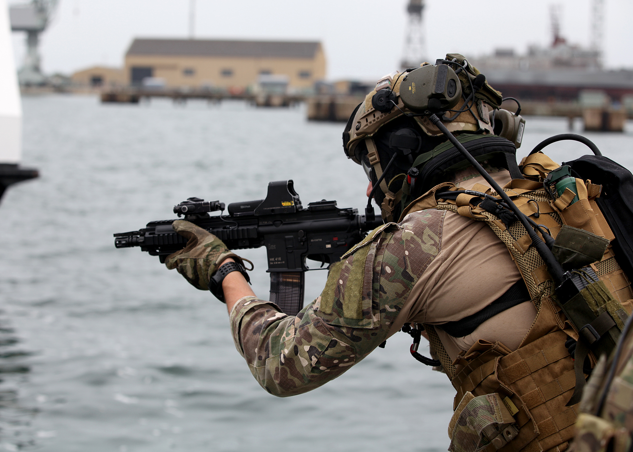 Soldier in the Polish Naval Special Forces Unit GROM pulls rear security as his team advances in Lisbon, Portugal on October 24, 2015 during NATO exercise Trident Juncture 15.